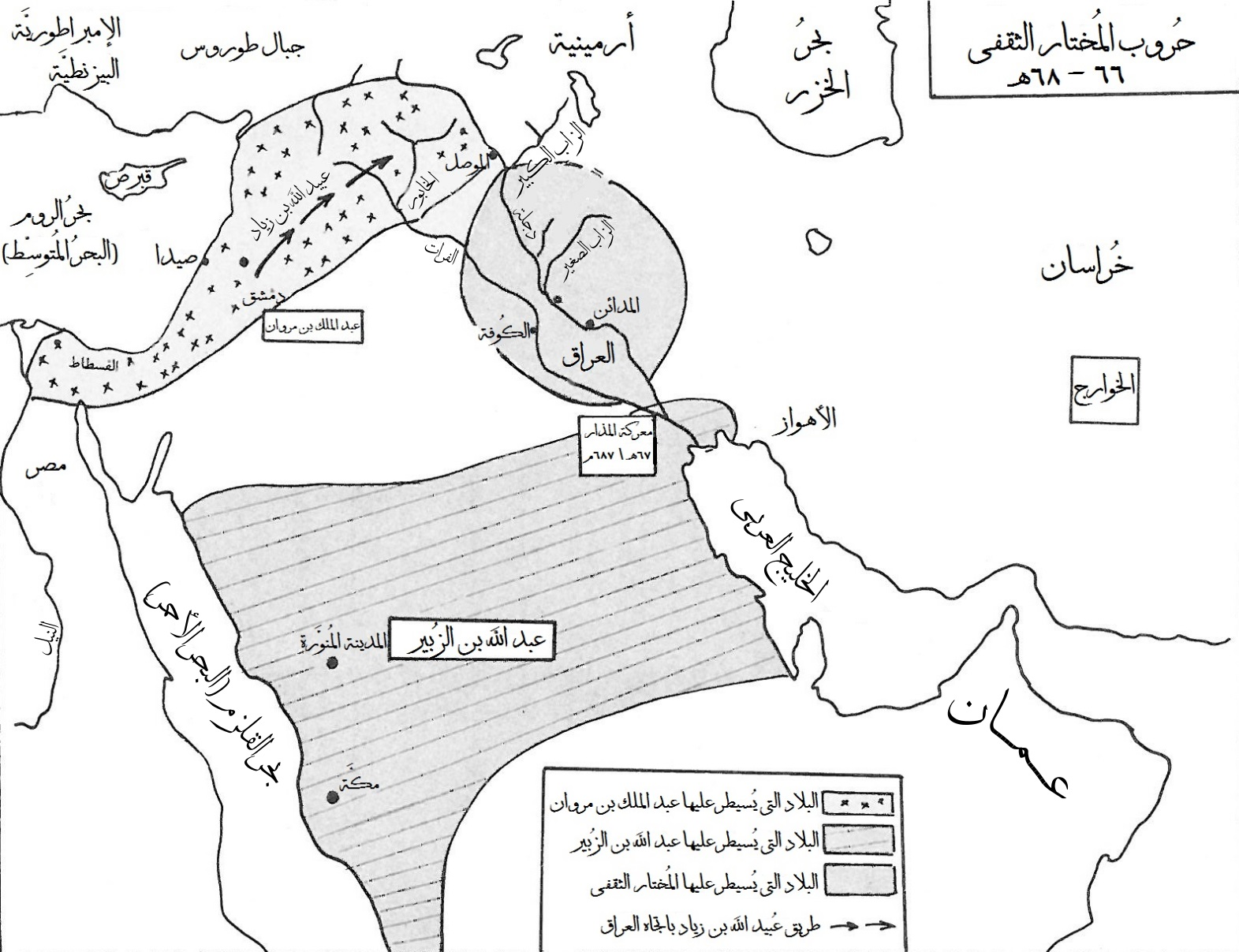 Map showing the areas dominated by: Al-Mukhtār al-Thaqafī, Abd al-Malik ibn Marwan, and Abd Allah al-Zubayr.